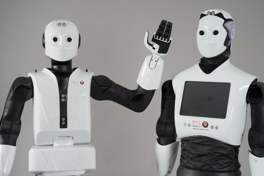 REEM-C and REEM